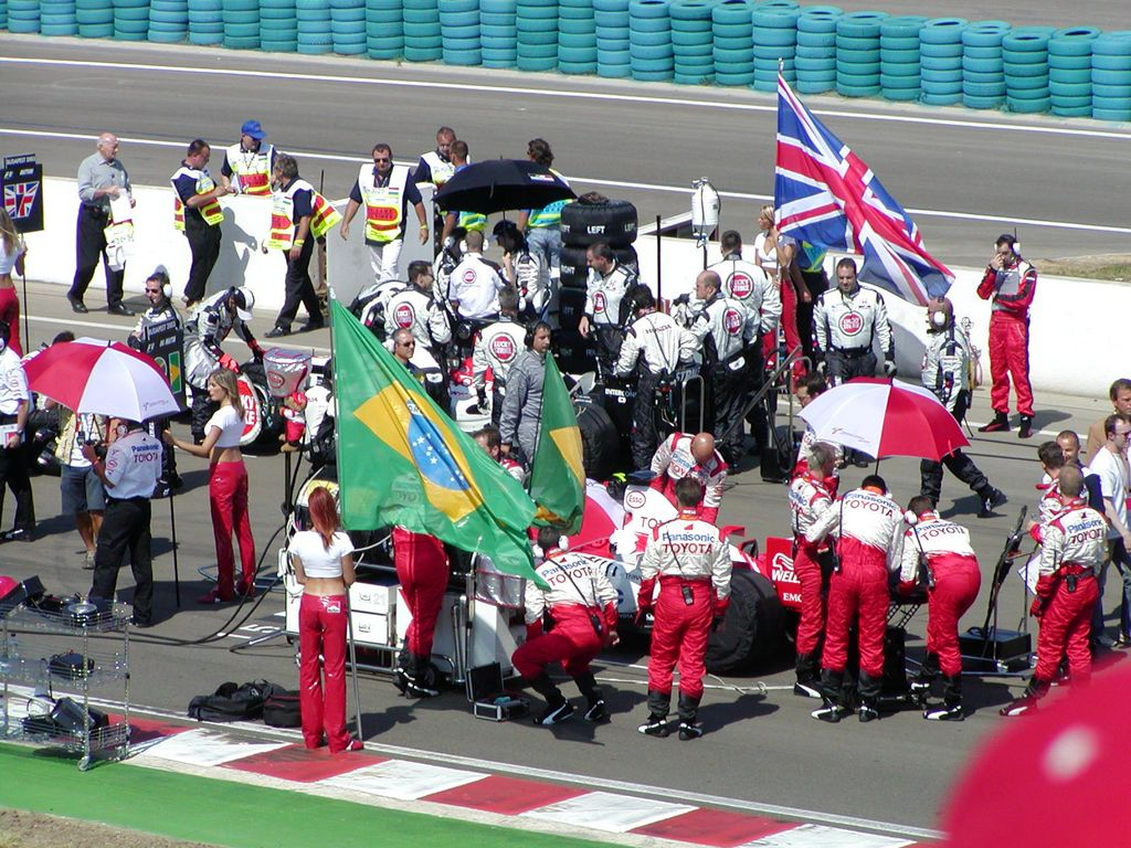 BAR and Toyota at the start grid at the 2003 Hungarian Grand Prix.